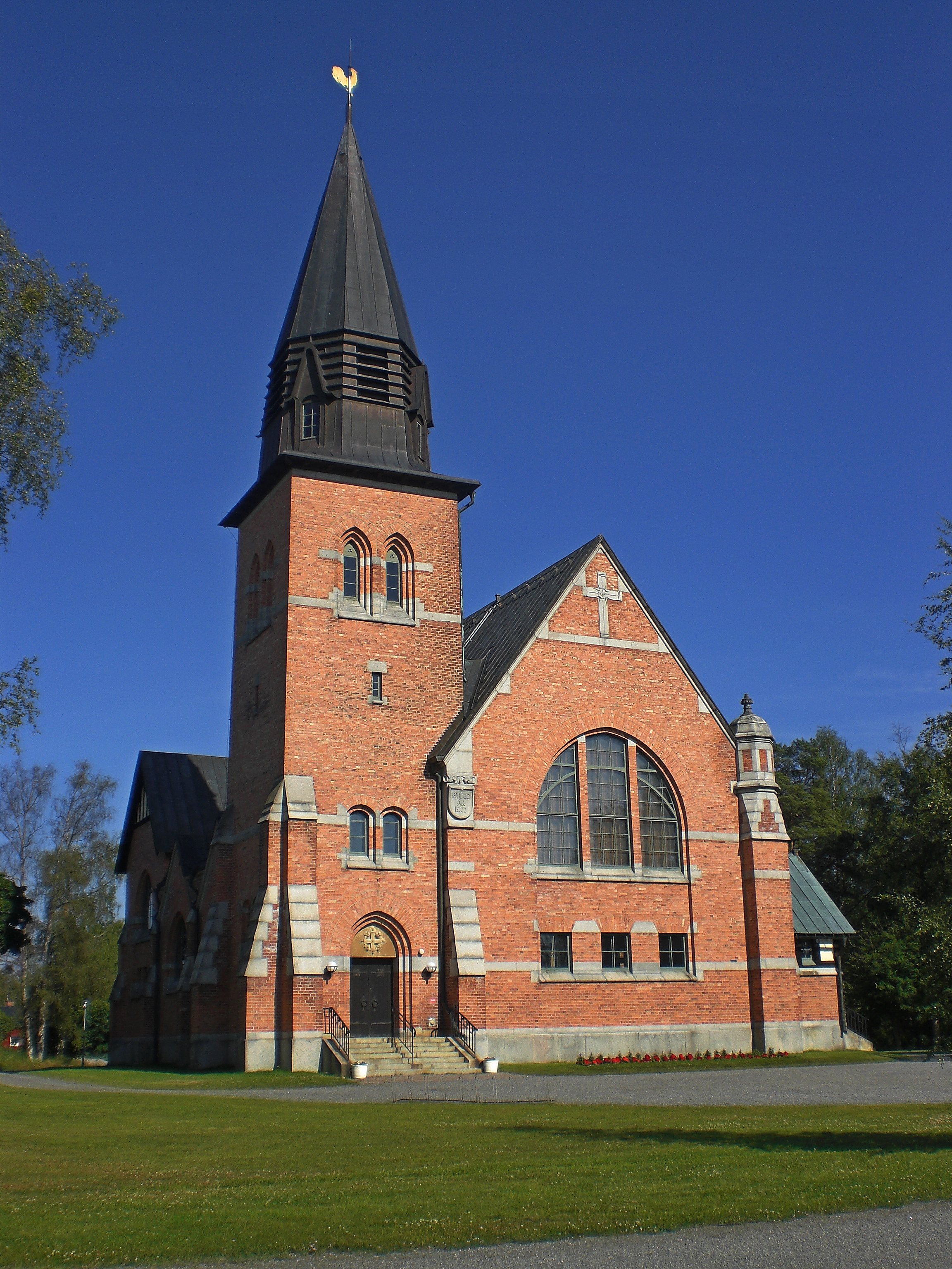 Hörnefors church